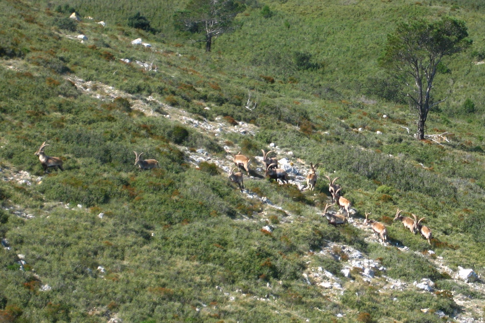 Capra hispanica pyrenaica near La Moleta, Alfara de Carles, at Ports de Tortosa Beseit, Tarragona, Catalonia, Sapin